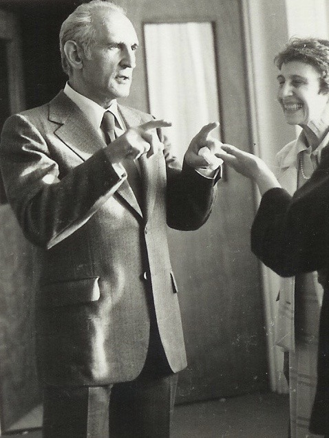 Dr. Alfred Brauner with his wife MD. Dr. Fritzi Brauner in 1975